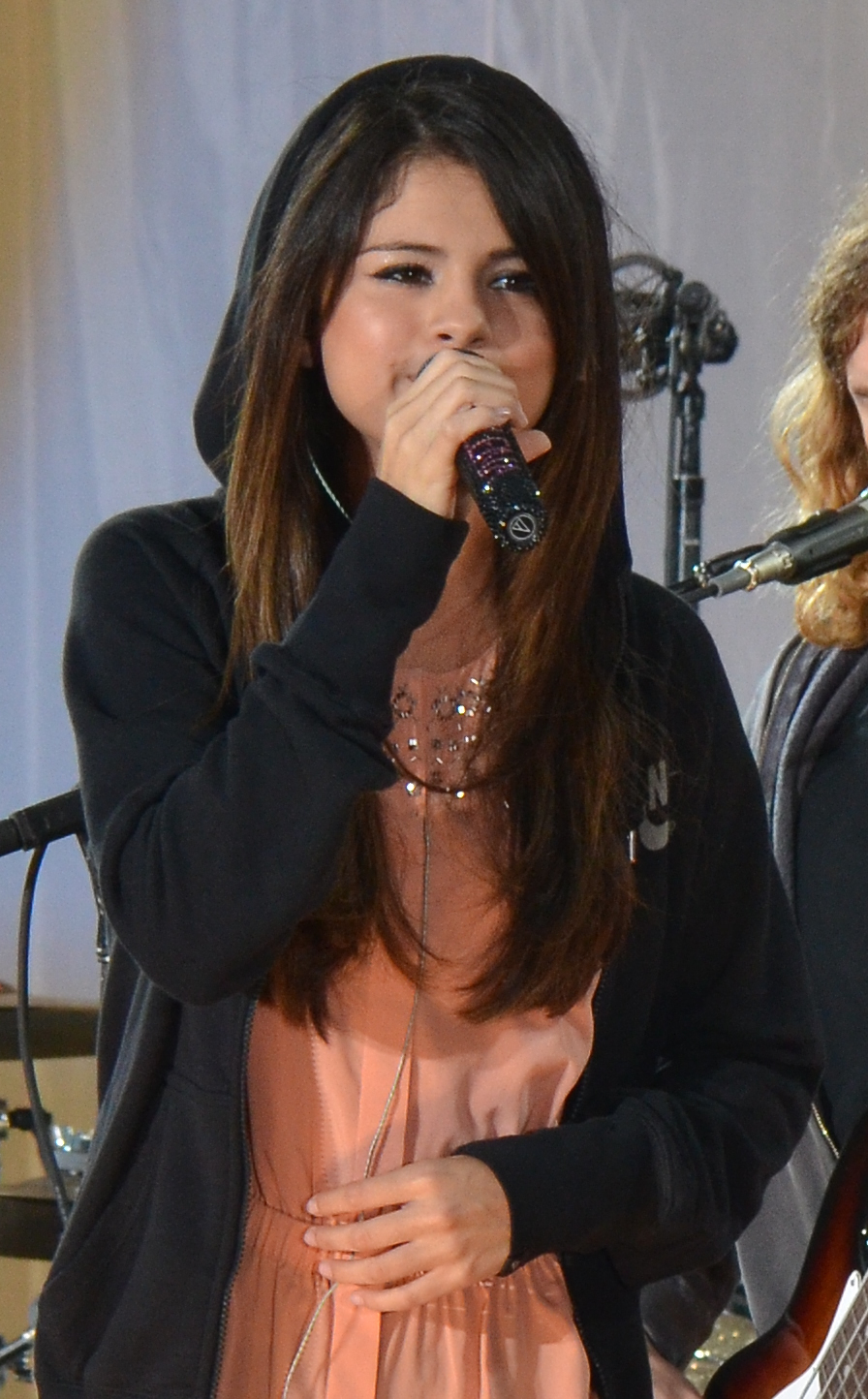 Selena Gomez & the Scene performing Naturally during soundcheck on Good Morning America in June.